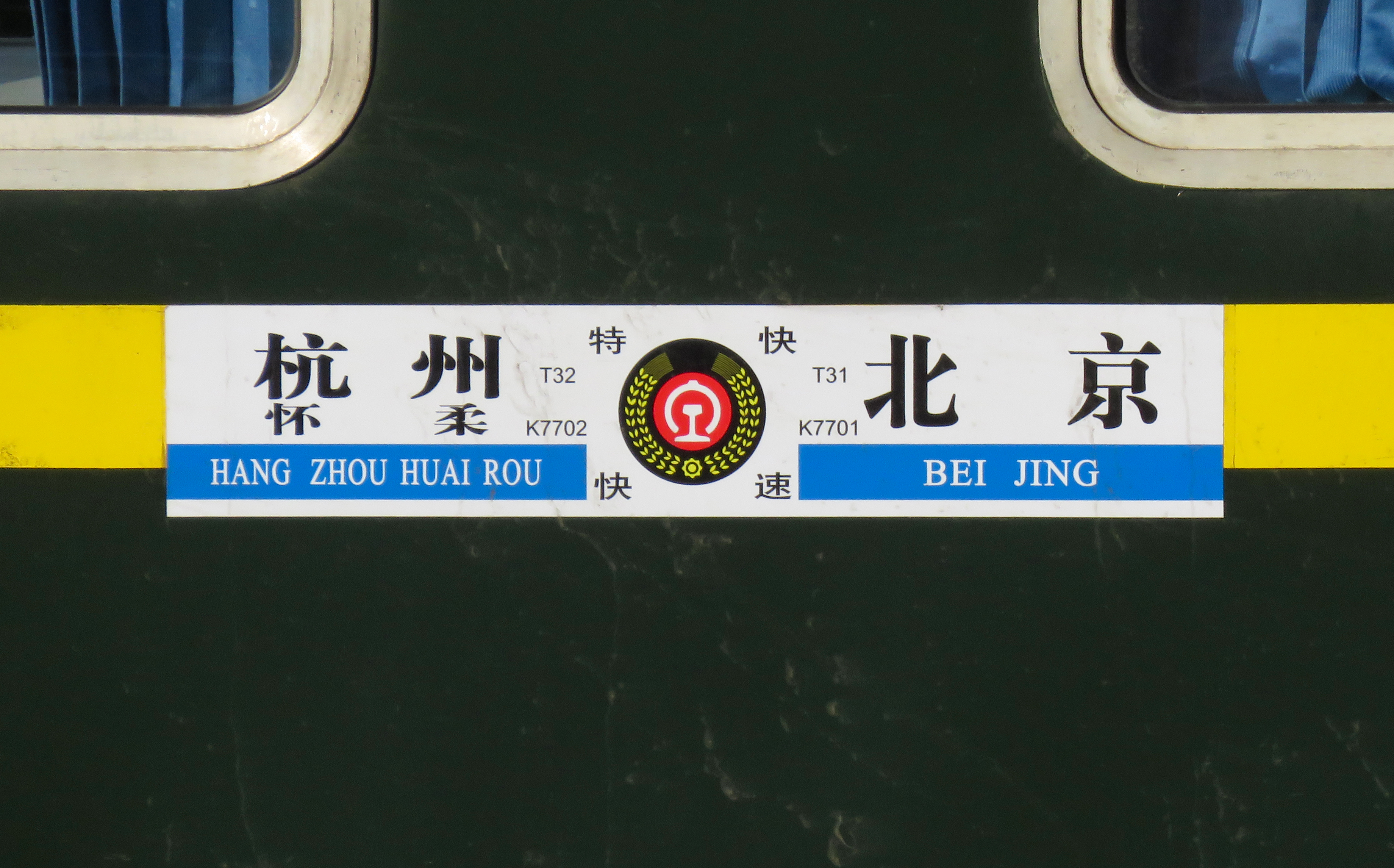 Now switched to Huairou Railway Station - Huairoubei is still under construction, passengers for S5 have to enter from a prefab, which opens in 4 window periods: 8:50-9:30, 10:30-11:30, 13:00-13:30, 16:30-17:10. Take a look or not? That's a question.